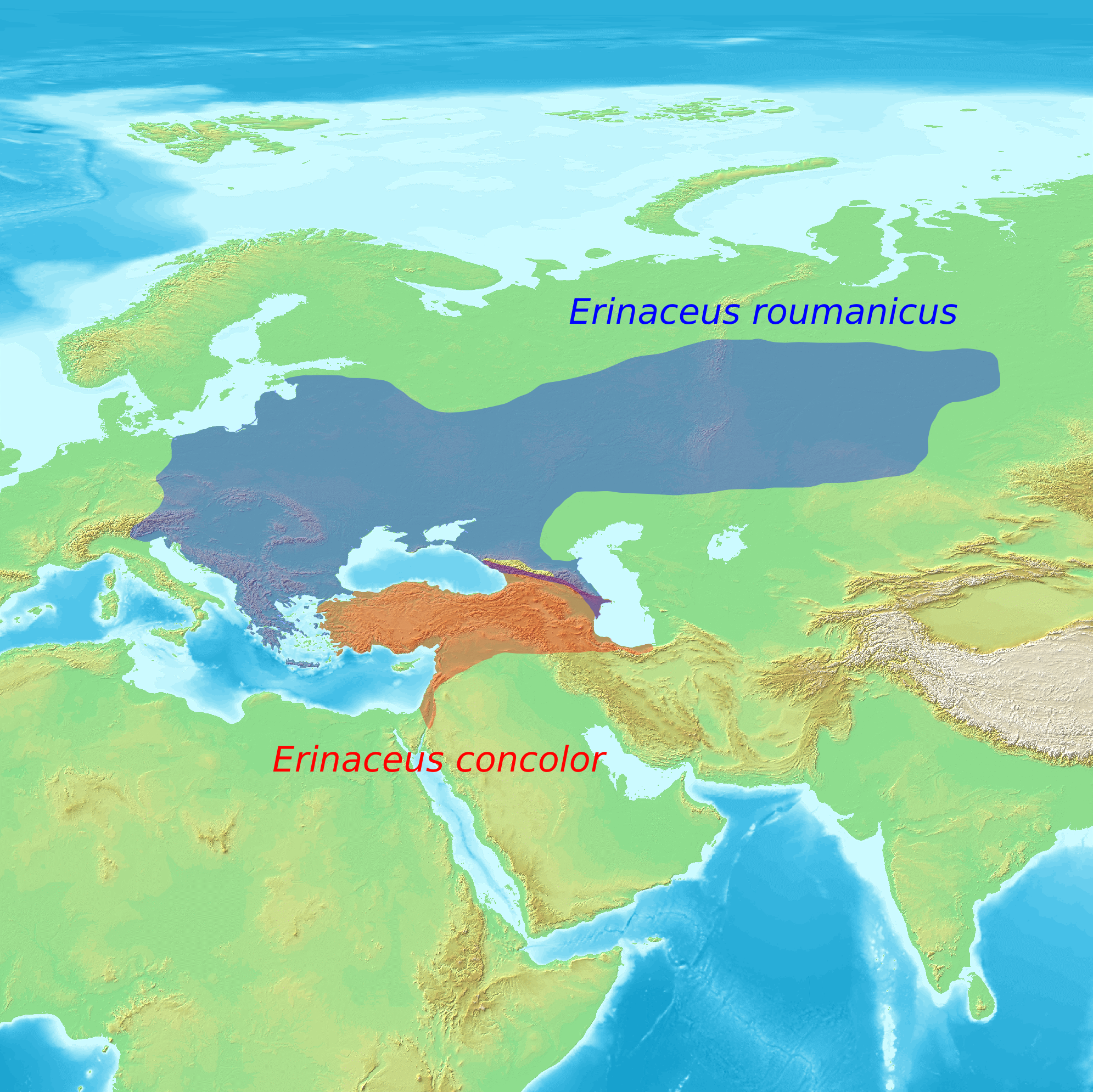 ranges of Erinaceus concolor (Southern White-breasted Hedgehog) and Erinaceus roumanicus (formerly Erinaceus concolor roumanicus) (Northern White-breasted Hedgehog)